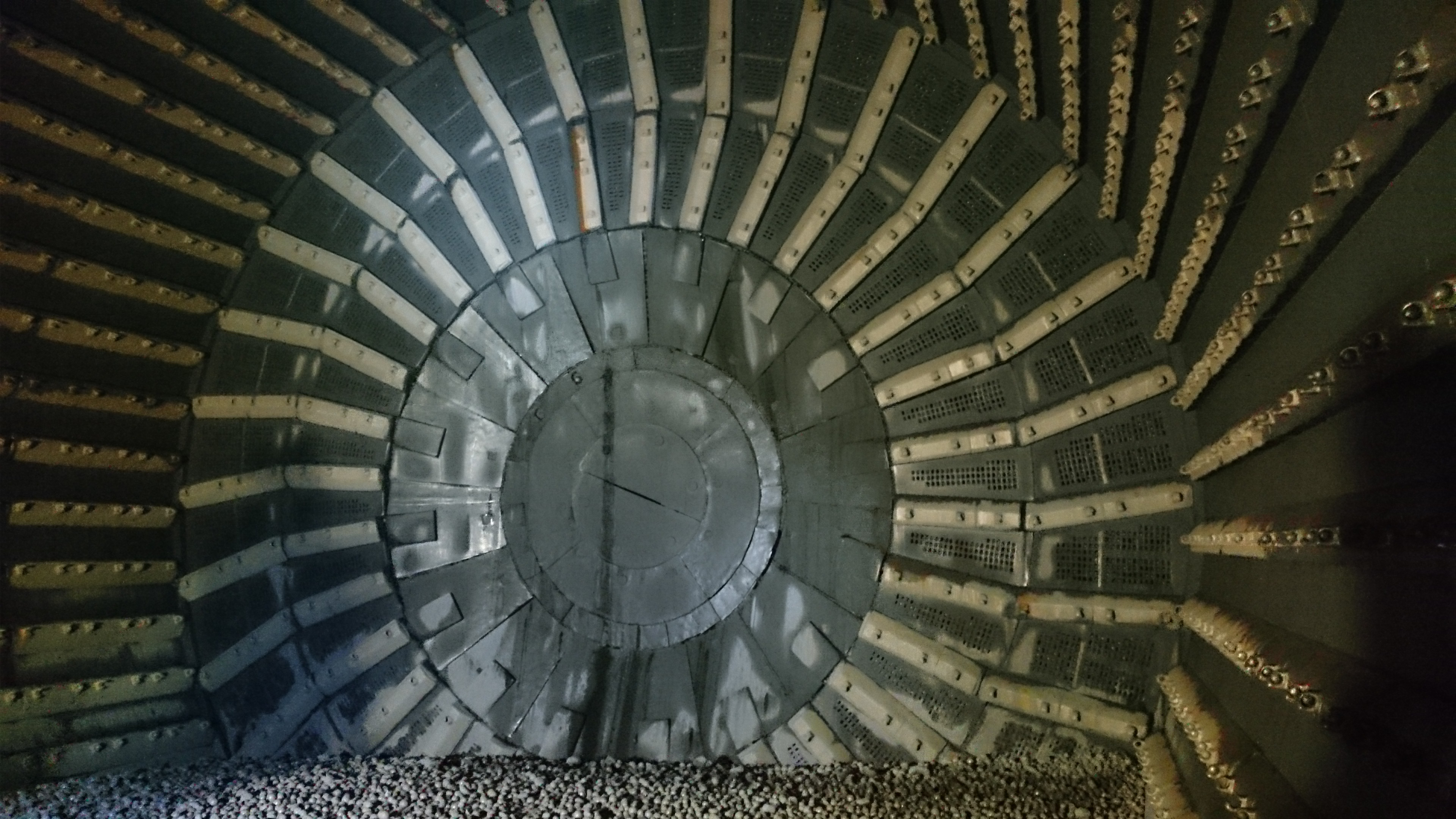 Tega Mill Liner installed in Mill